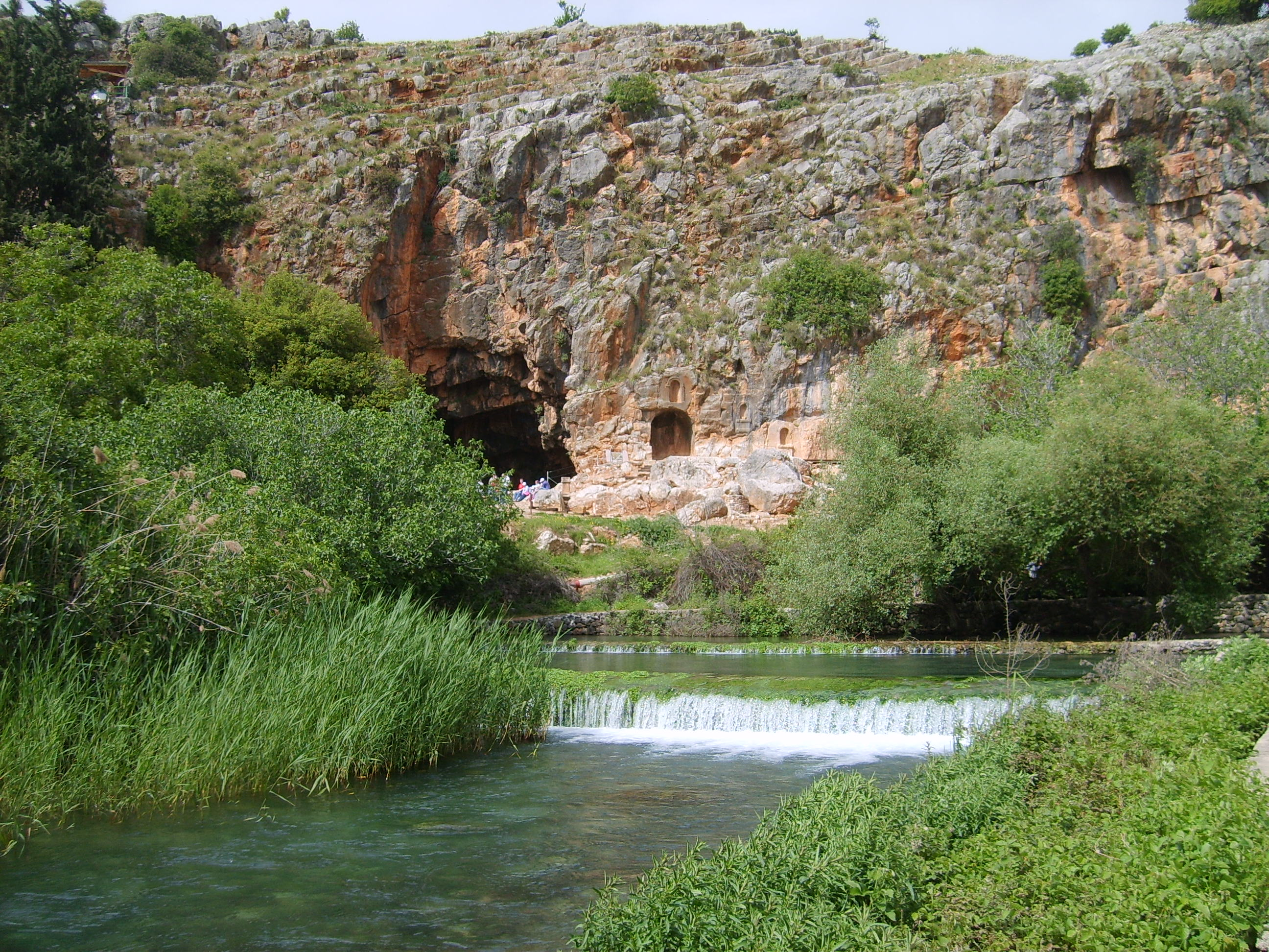 Spring of Banias river, one of the main tributory of the Jordan River. In the background Pan's cave, in which the river originated in ancient times until an earthquake blocked it.